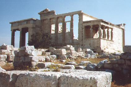 Erechtheum.